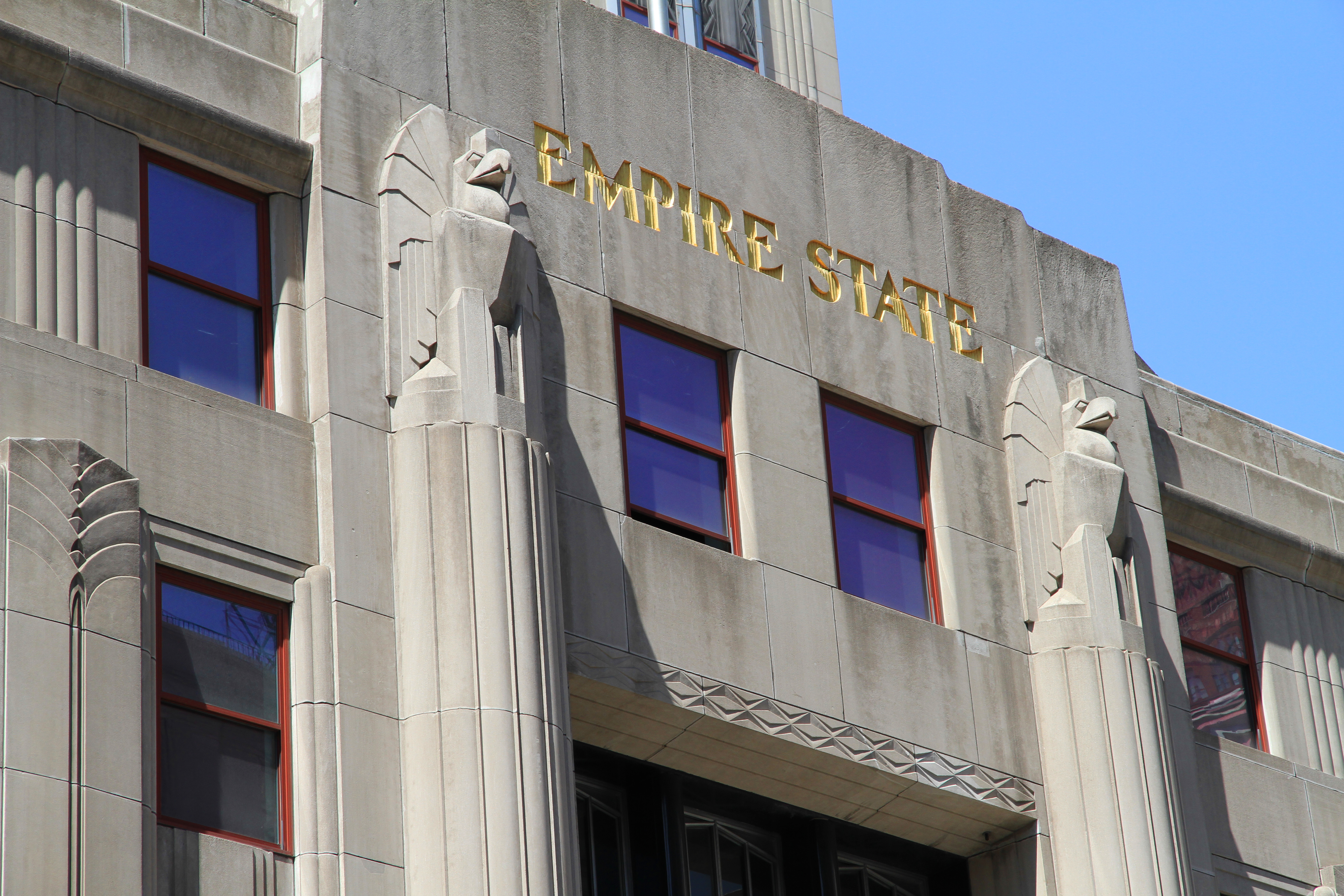 Empire State Building, 2013